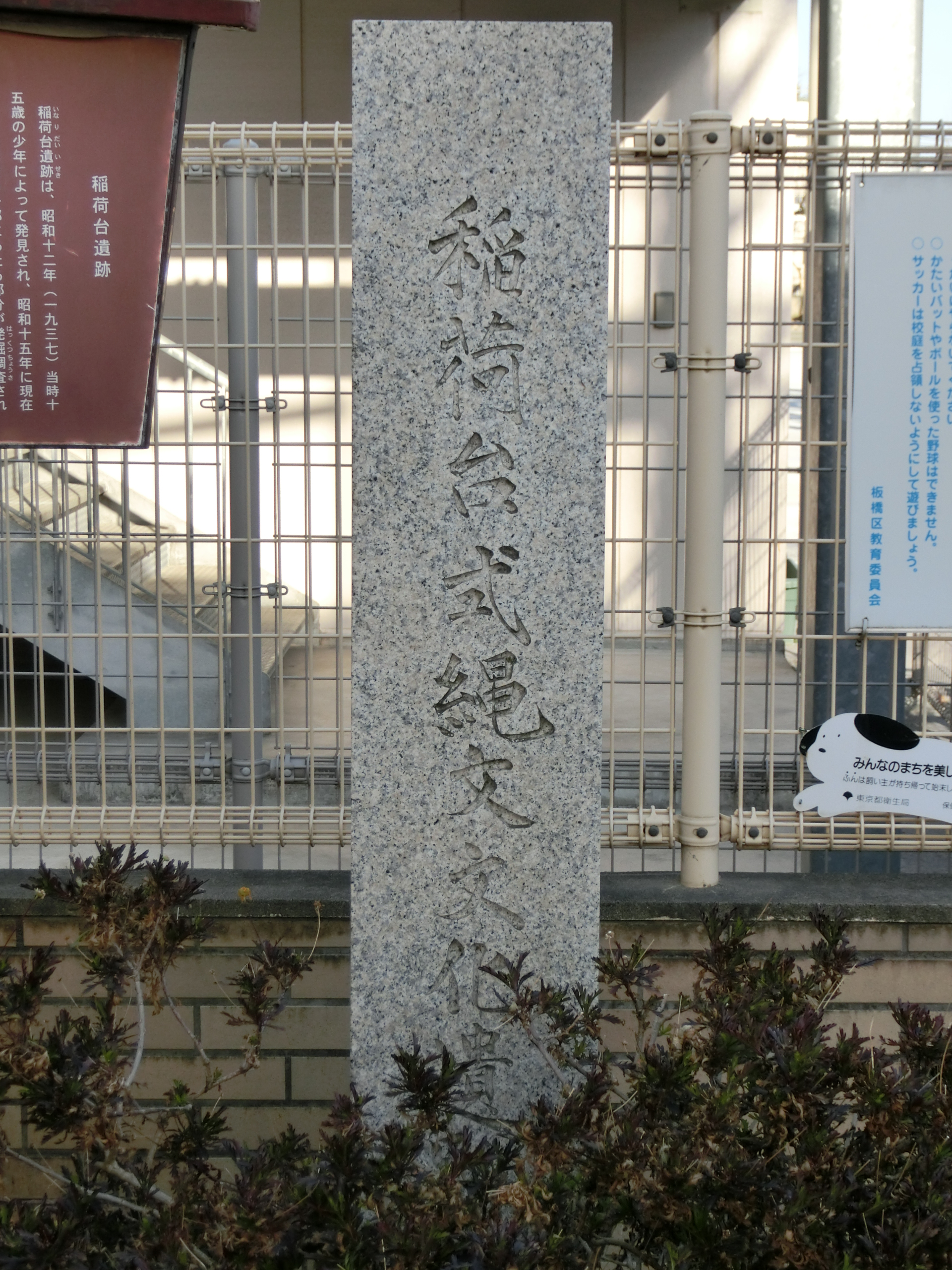 Inaridai Site monument